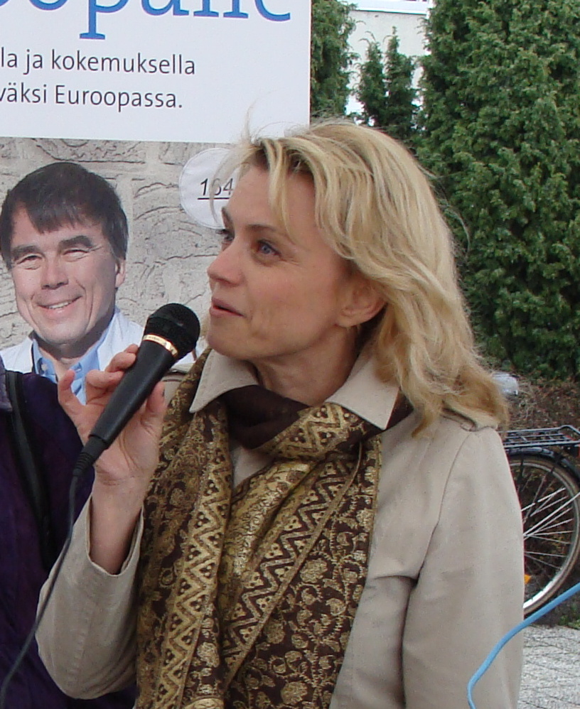 Finnish politician of the Christian Democrats Päivi Räsänen in Espoo